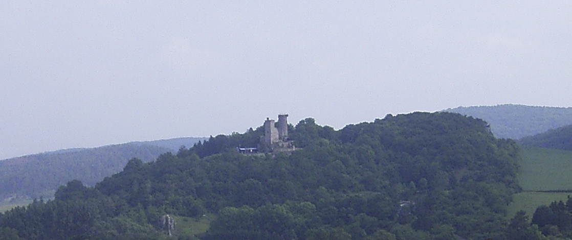 The Kugelsburg near Volkmarsen (Germany)